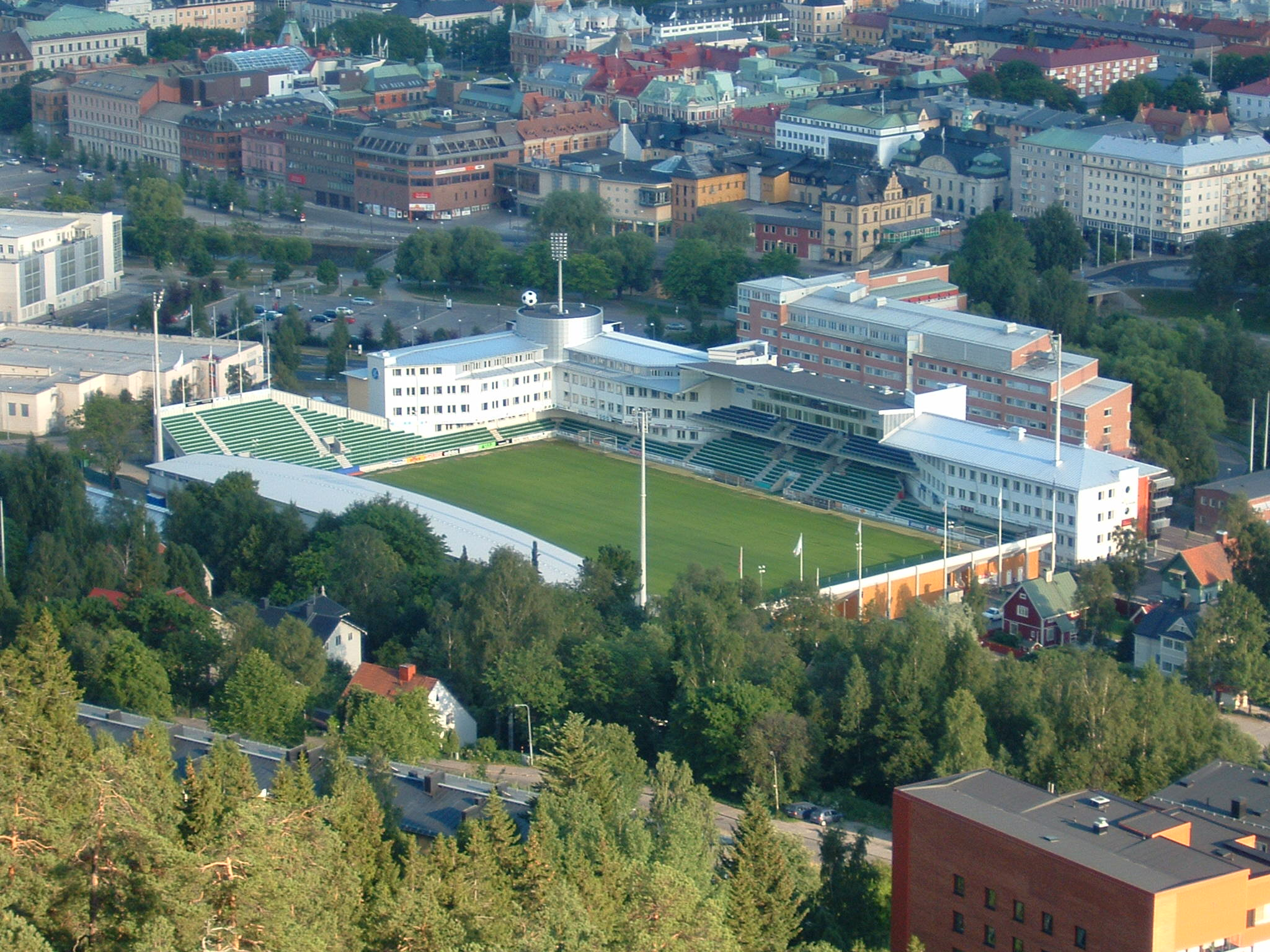 Norrporten Arena (then called Sundsvalls Idrottspark), Sundsvall, Sweden